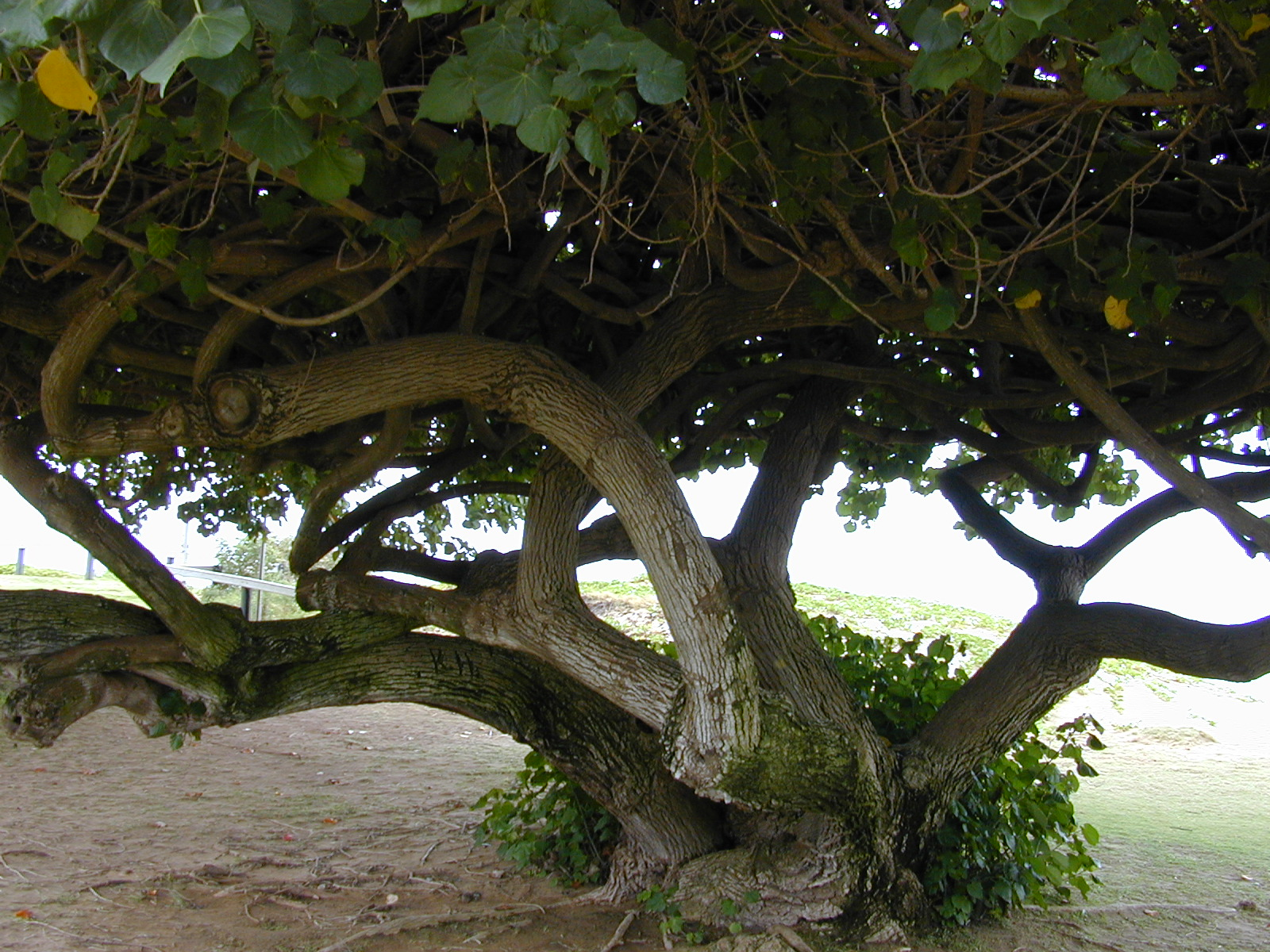 Hibiscus tiliaceus (trunk). Location: Maui, Mai poina oe lau Beach Kihei